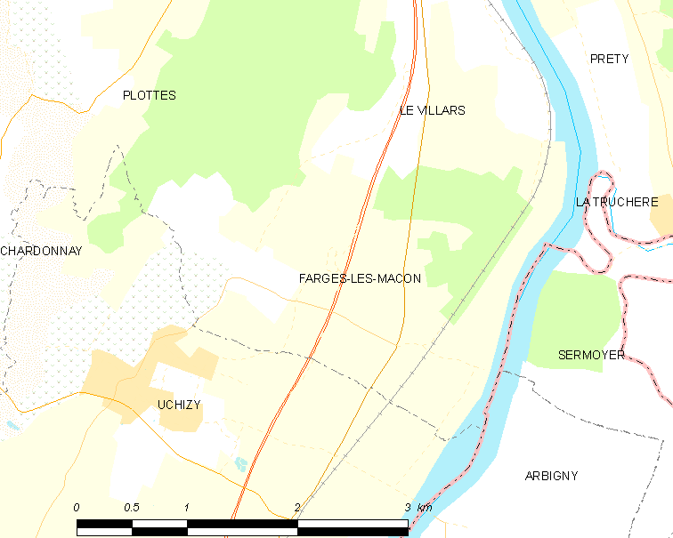 Map of French municipality